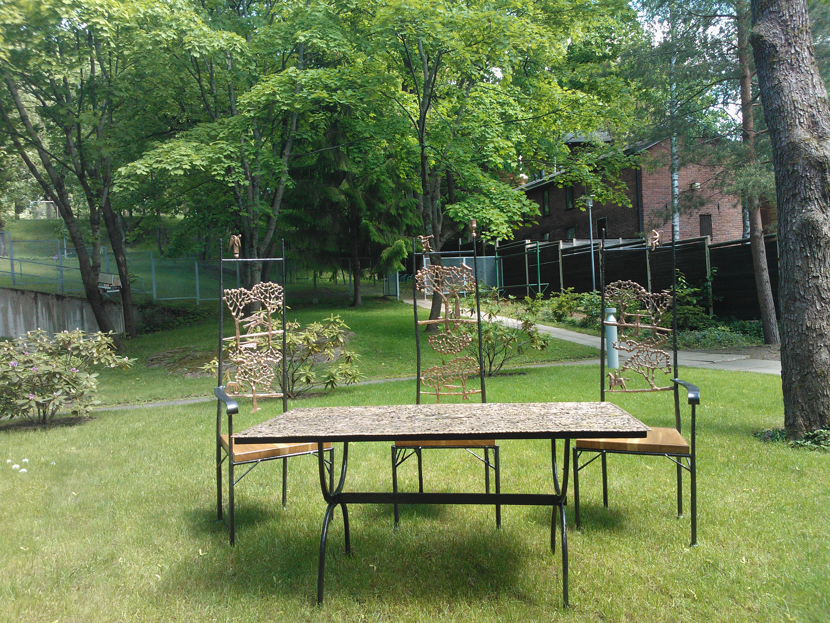 Russian consulate courtyard